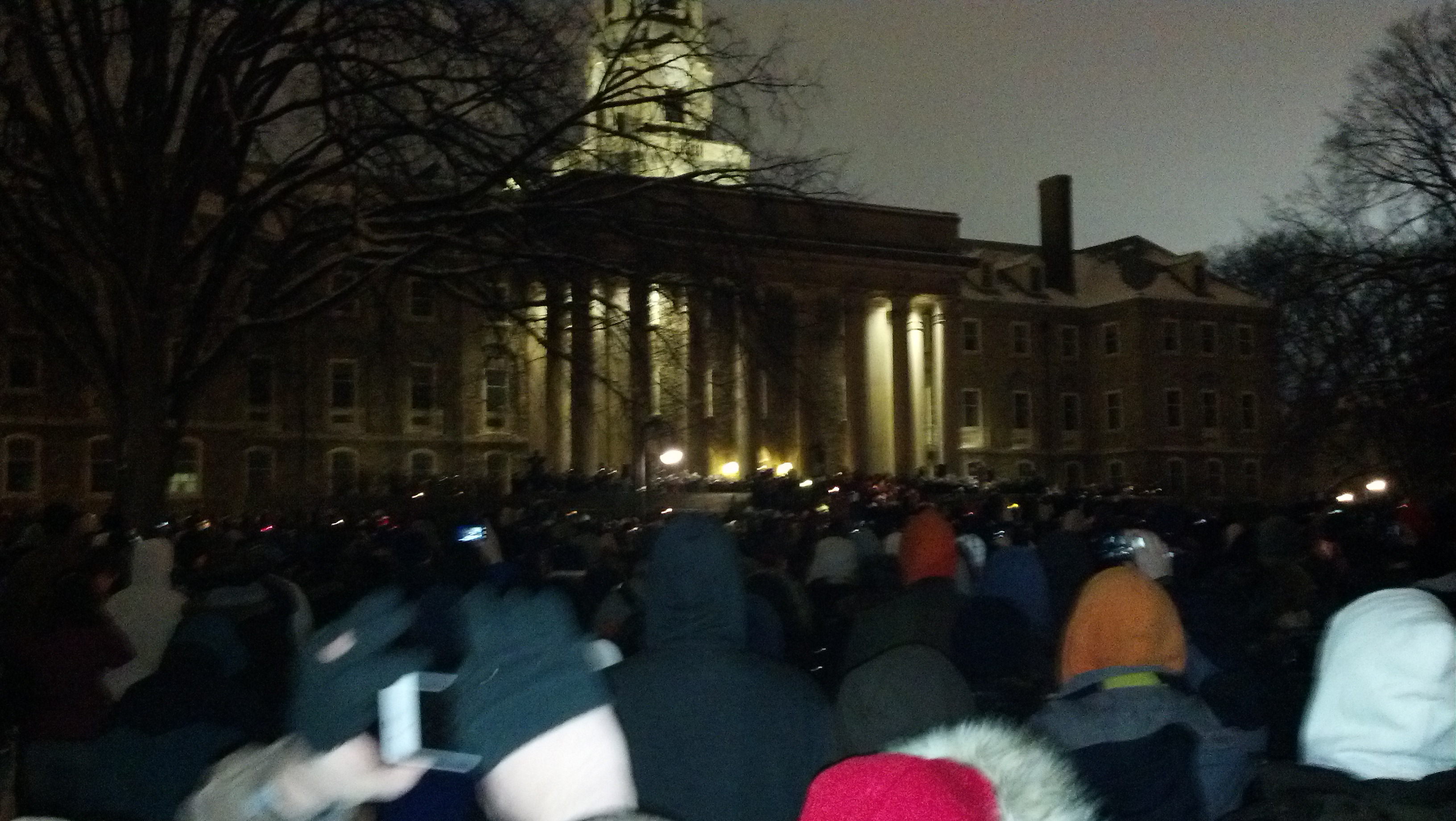 A memorial vigil is held at Penn State University after the death of longtime coach Joe Paterno was announced.